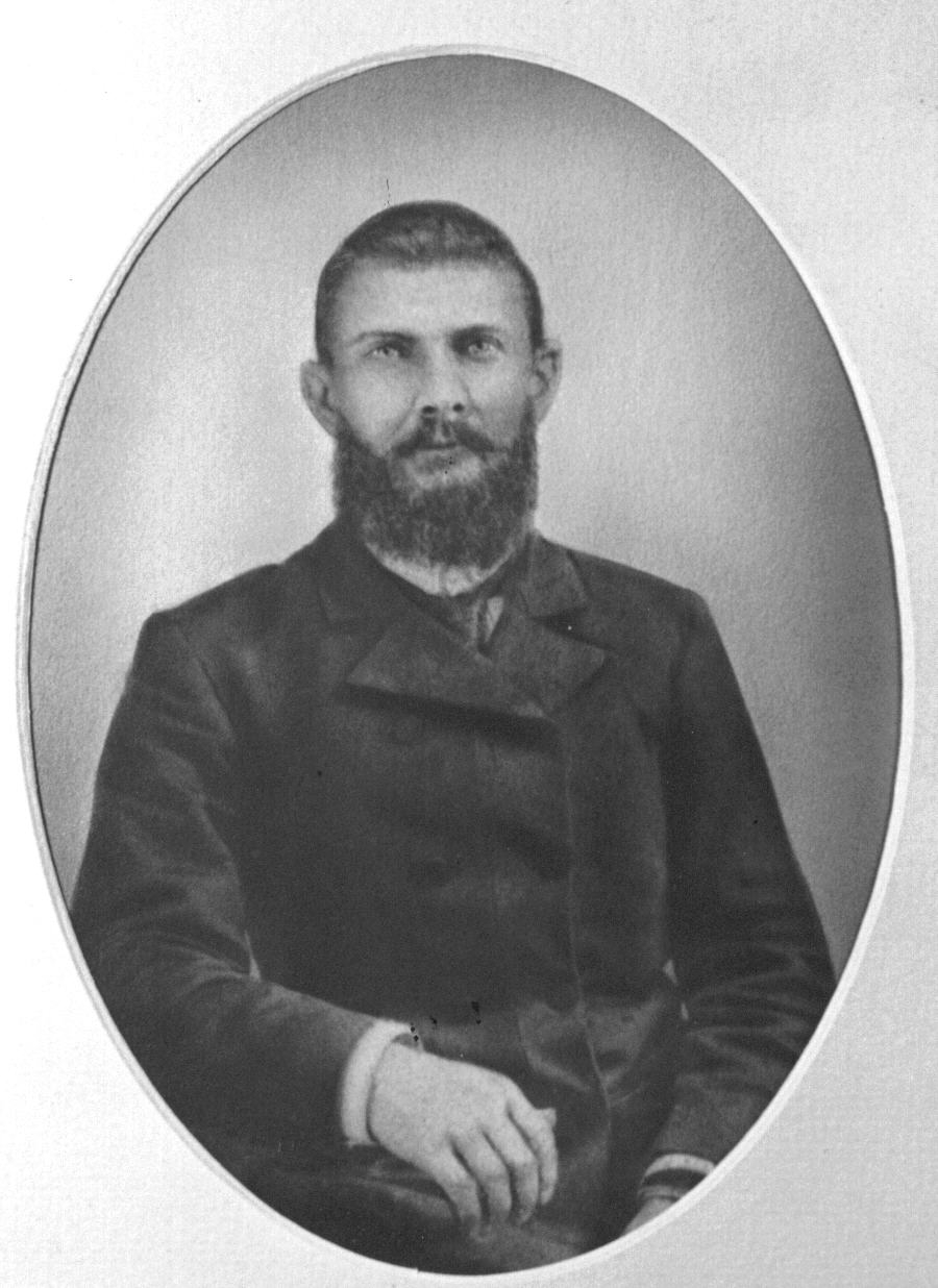 Picture of Judge Josiah Henry Combs (key player in French–Eversole feud)